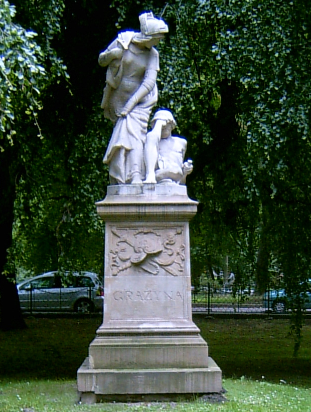 Statue to Grazyna based on epic poem by Adam Mickiewicz by the same title, Planty Park, Kraków, Poland